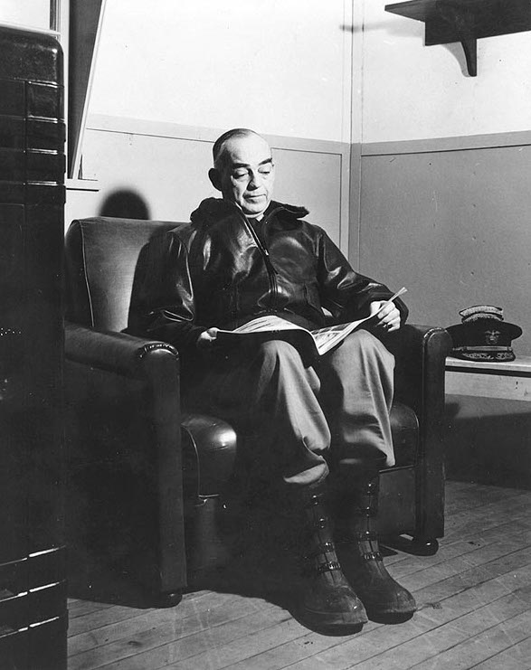 Vice Admiral Thomas C. Kinkaid, USN, commander of North Pacific Force reading in his quarters on Adak, Aleutian Islands. Note his leather jacket, galoshes, and fleece-lined gloves resting atop his cap.